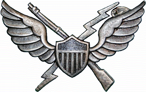 This is from some old files I have from my military records. The graphic was scanned in using a scanner into Adobe Photoshop, but the original artwork is property of the Department of Army.